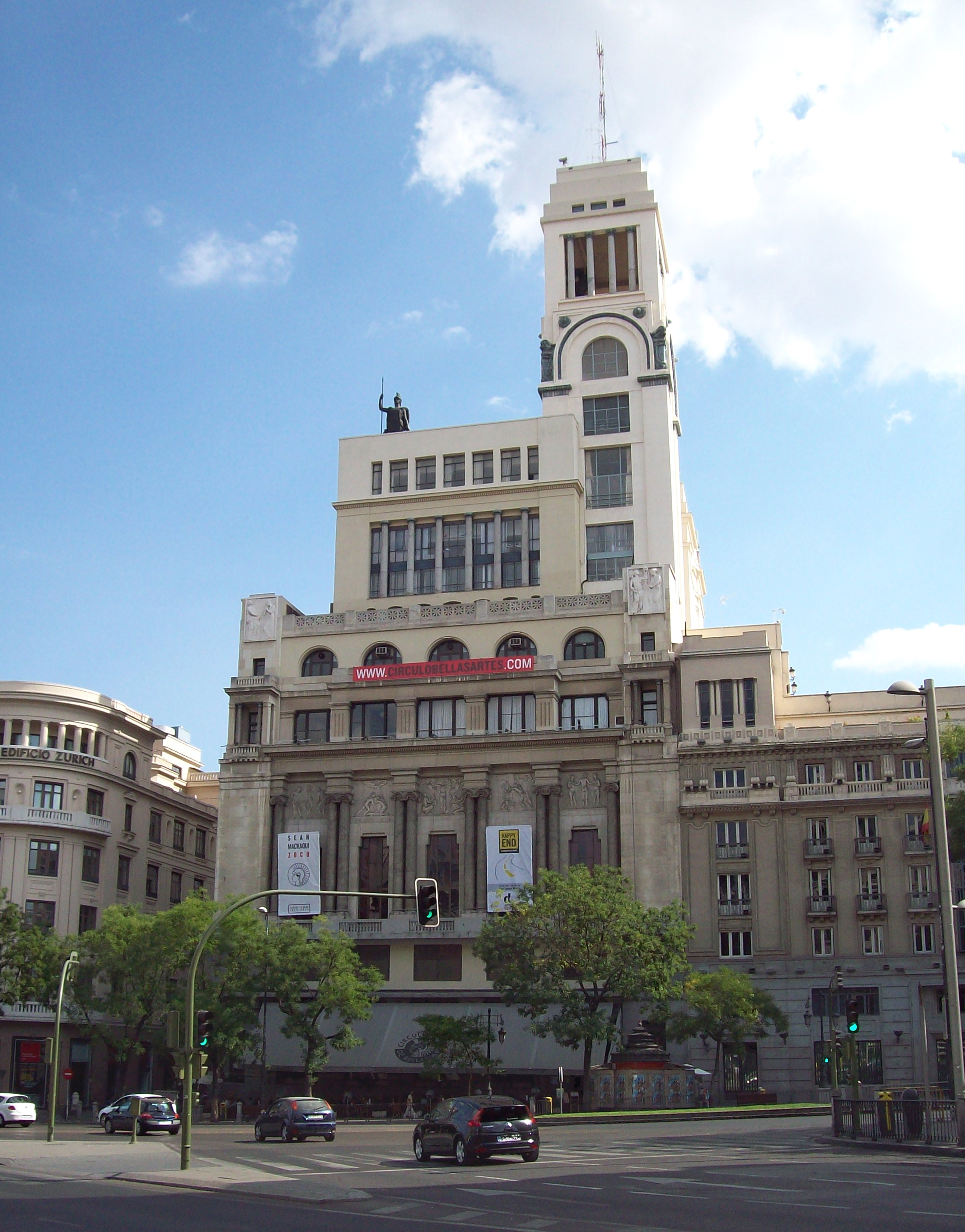 Círculo de Bellas Artes in Madrid (Spain).